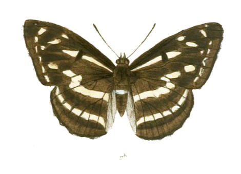 Tatisia kanwa